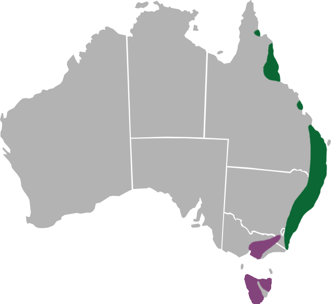 Distribution of Graphium macleayanus in Australia.